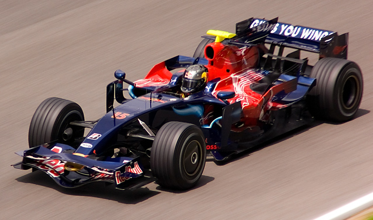 Sebastian Vettel testing for Scuderia Toro Rosso at the Circuit de Catalunya in June 2008.